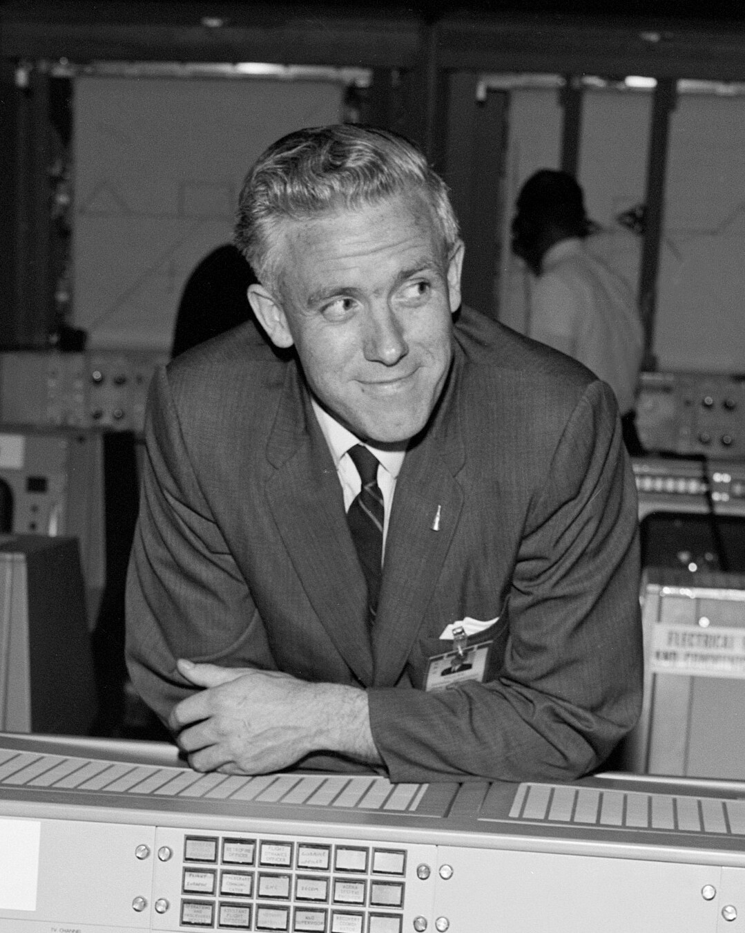 John Hodge, a flight director on the Gemini 4 mission